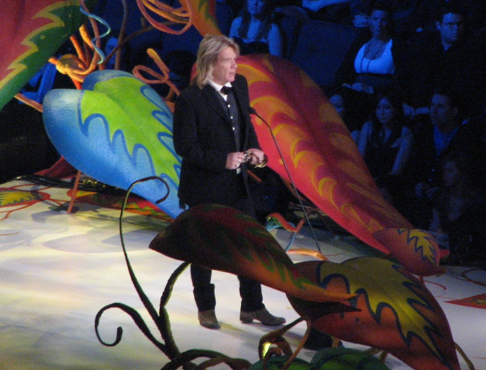 Bob Rock makes a presentation at the 2009 Juno Awards in Vancouver, British Columbia, Canada.